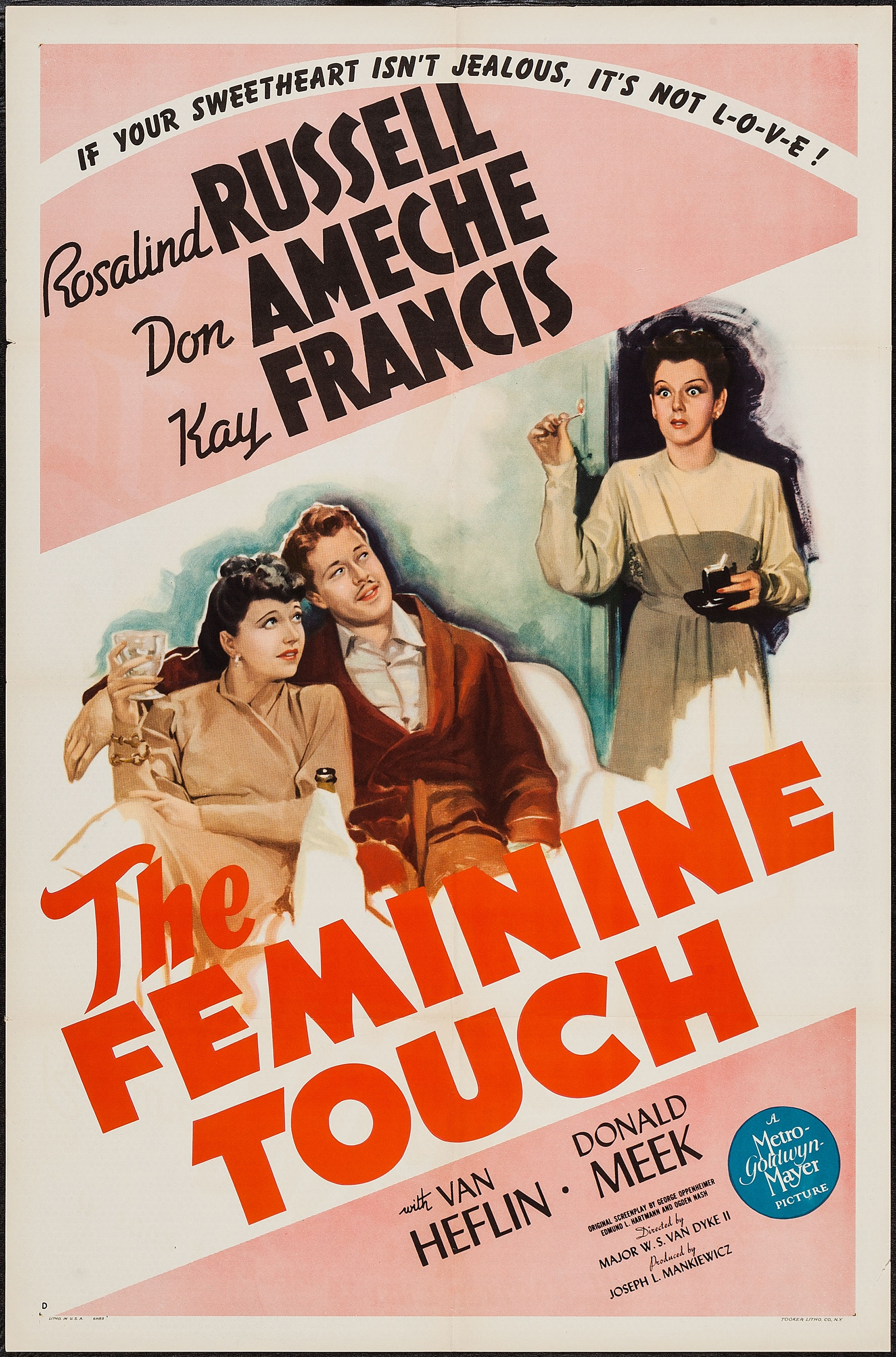 Poster for the 1941 film The Feminine Touch. The item has no copyright markings on it as can be seen in the links above. At bottom left is "D"-poster version D, Country of origin USA, and 6489. At bottom right is Tooker Litho Co., NY-they printed the poster.